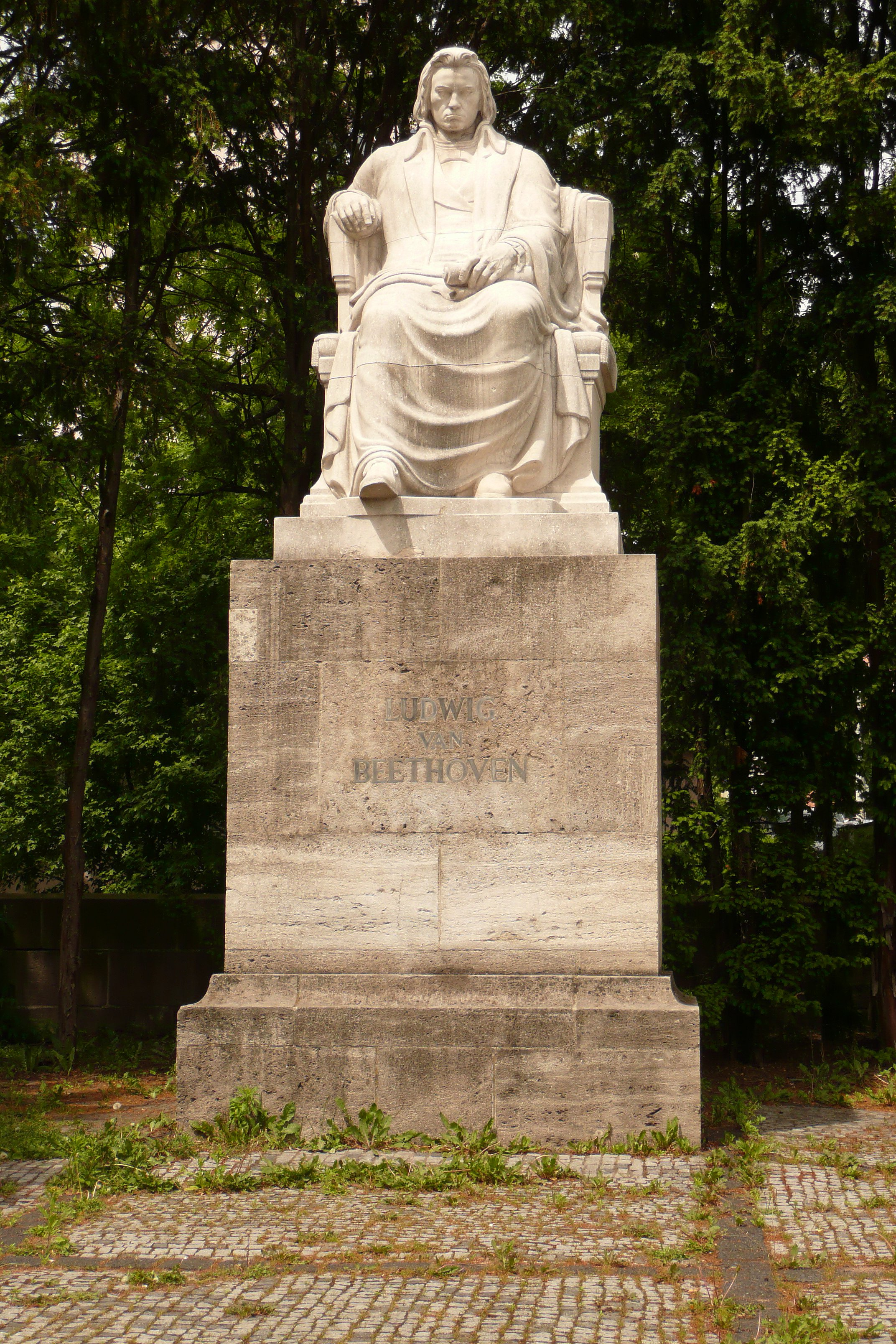 Beethoven monument in Nuremberg, Germany